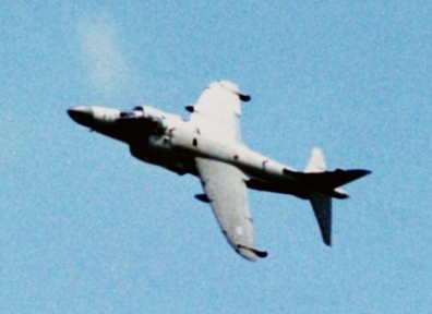 A Royal Navy BAe Sea Harrier FA.2 photographed at Air Base Værløse, Denmark.